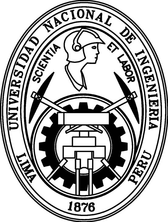 Seal of the National University of Engineering (Lima, Peru)